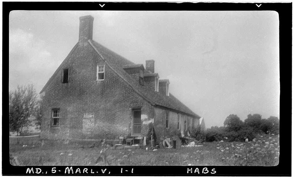 Grahame House: Historic American Buildings Survey Delos H. Smith, Photographer July 1940 HABS MD,5-MARL.V,1-1